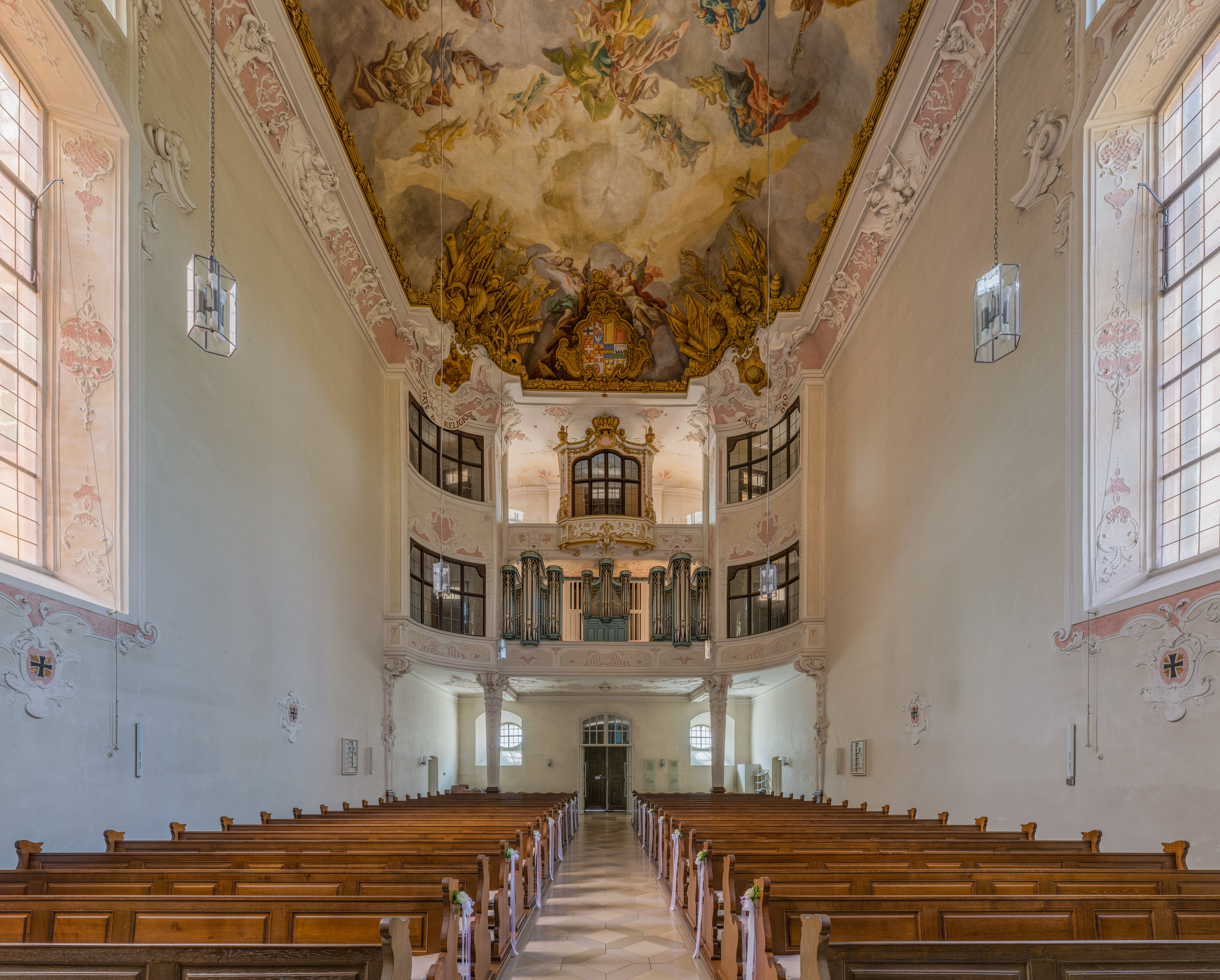 An interior view of Schlosskirche, Bad Mergentheim, nave and organ